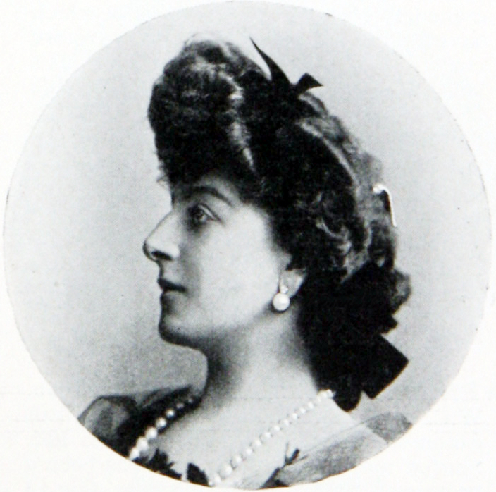 Mrs Ada Annie Watney, wife of Claude Watney, brewer, circa 1900. He was the former owner of Garston Manor (previously High Elms) near Watford, Hertfordshire